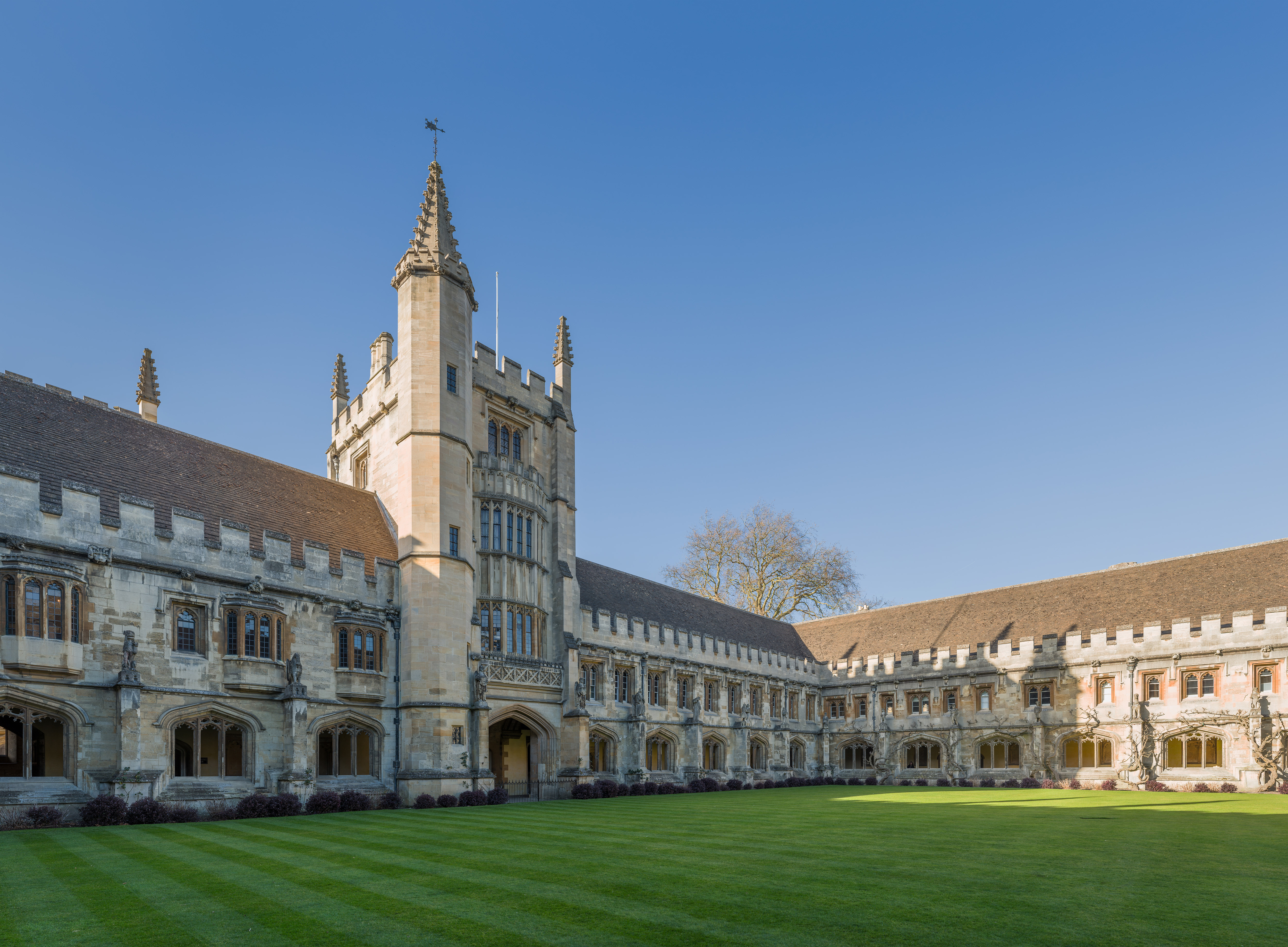 The New Quad and Founders Tower of Magdalen College, Oxford, England.